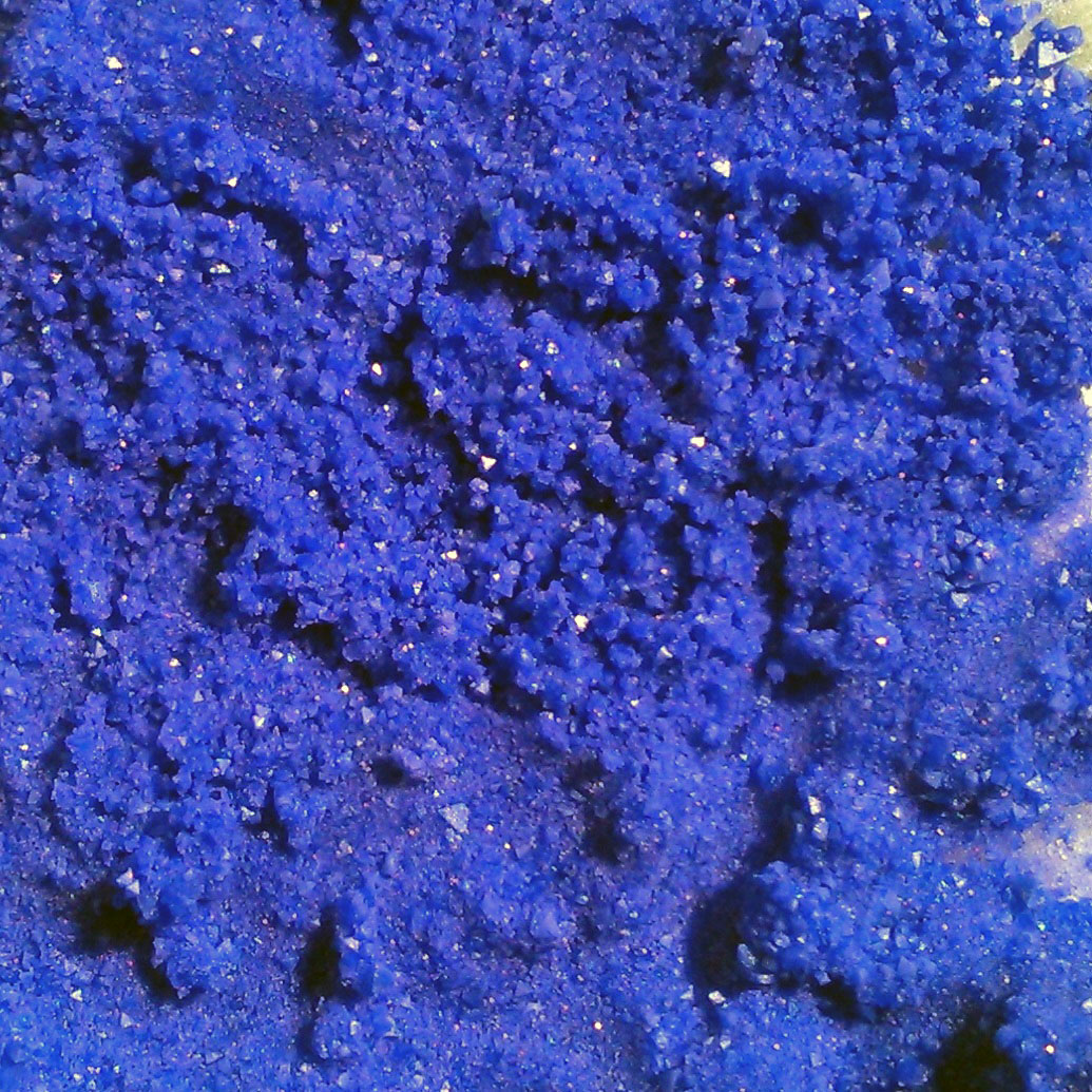 Crystals of hexammine nickel chloride.